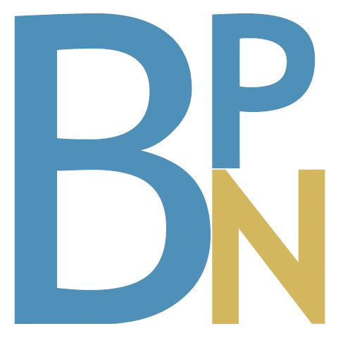 Logo of the Dutch Biography Portal called "Biografisch Portaal"